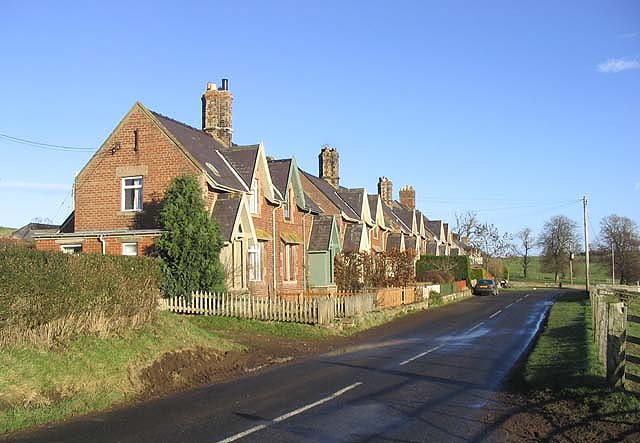 Houses at Howtel By the B6352.